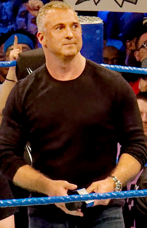 Shane McMahon on April 10, 2018, at a WWE event.